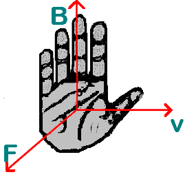 Right hand rule for a positive charge moving with velocity v in a magnetic field B. The thumb point in the direction of v (or a positive current). The fingers point in the direction of B. The force is out of the palm. There is no magnetic force for v in the same or opposite direction as B.